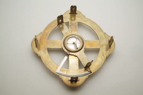 Hollandse cirkel met zonnewijzer in kist